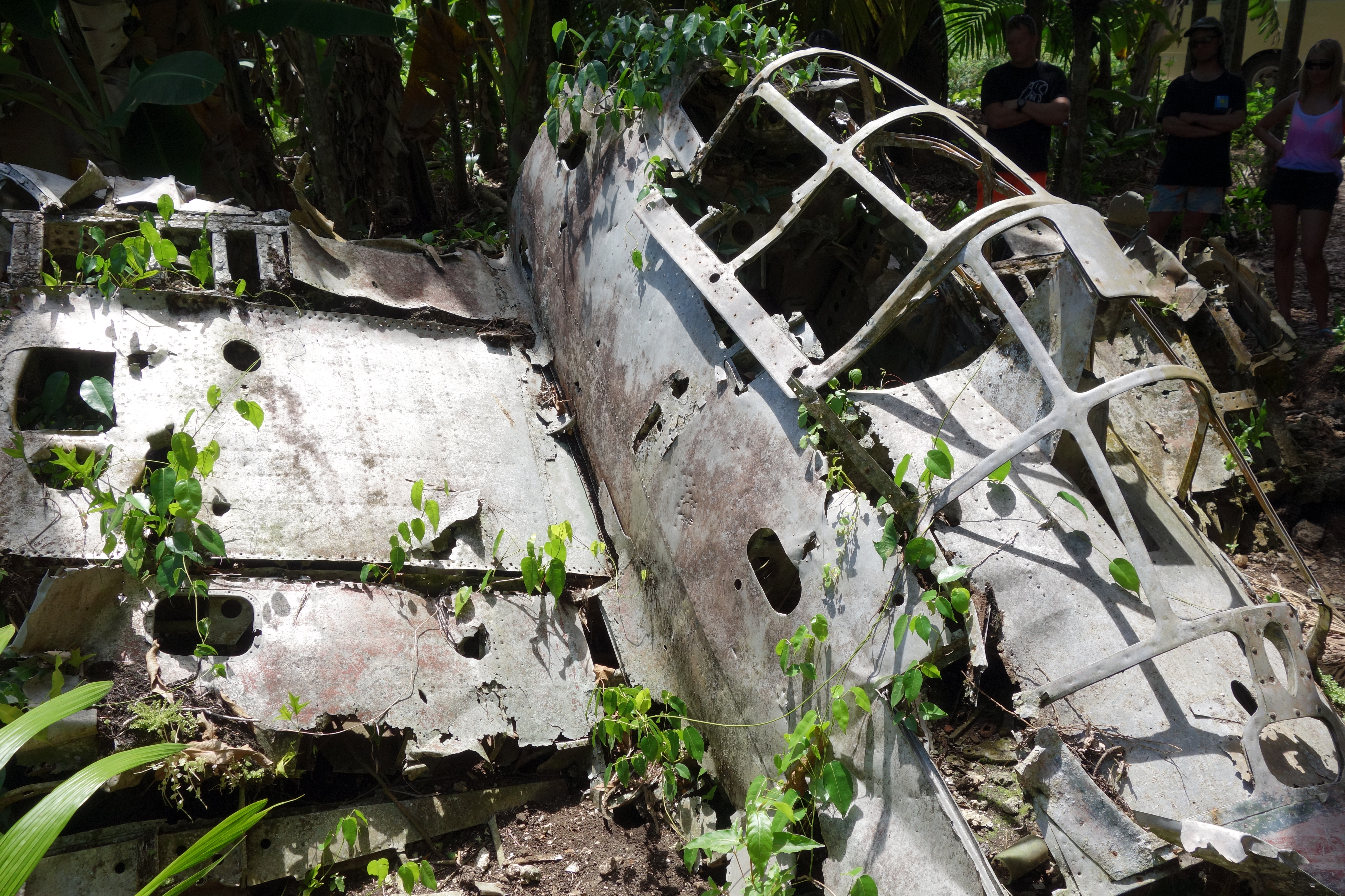 Wrecked Mitsubishi A6M Zero fighter in Peleliu jungle.